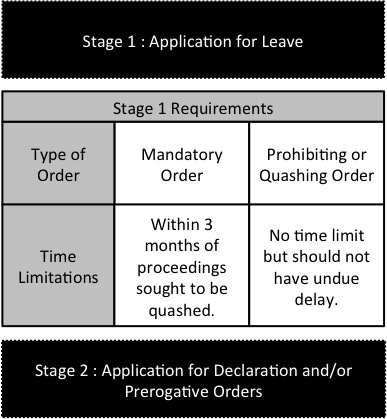 A diagram showing the two-stage procedure under Order 53 of the Rules of Court of Singapore.